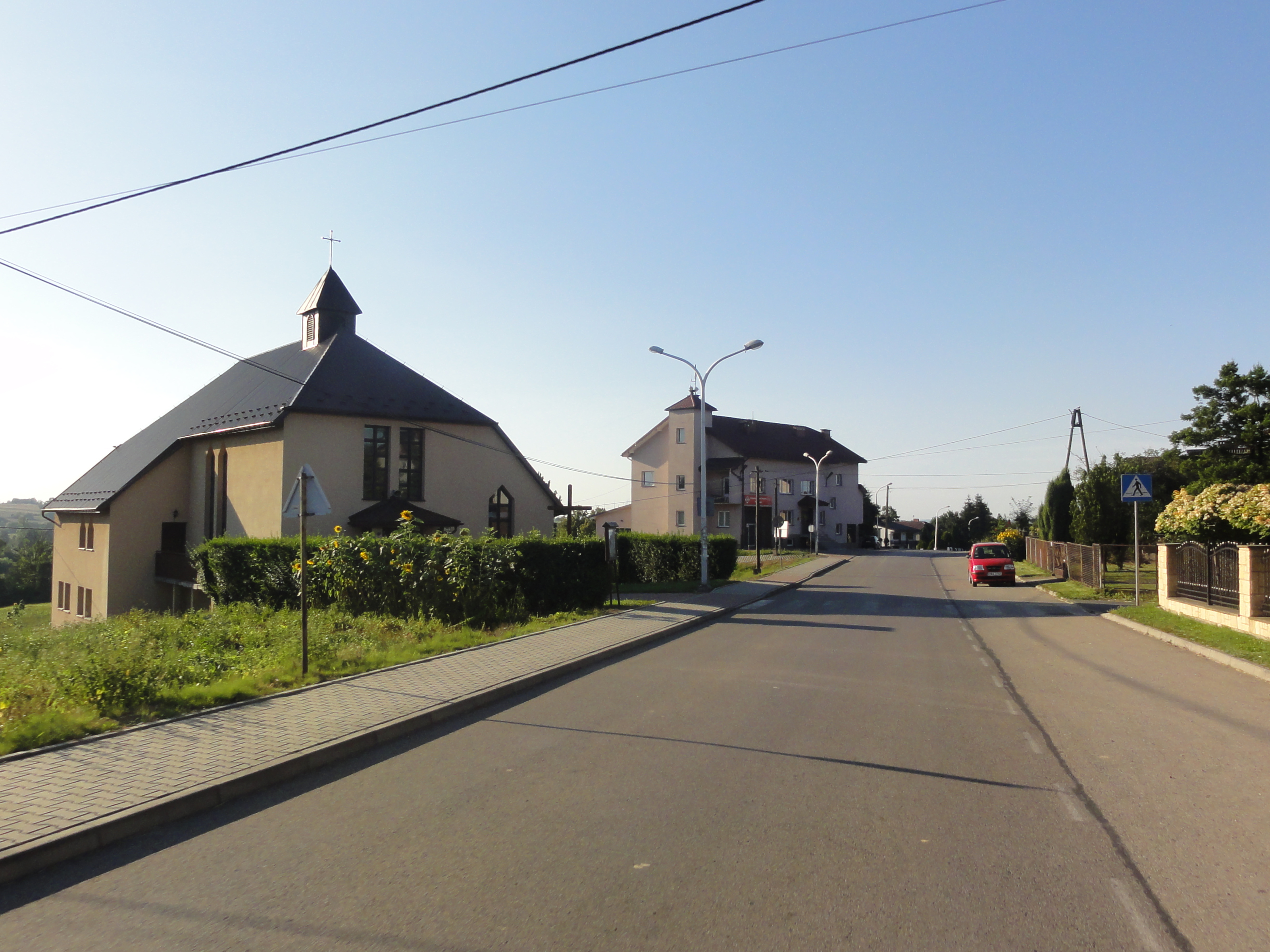 Przybradz